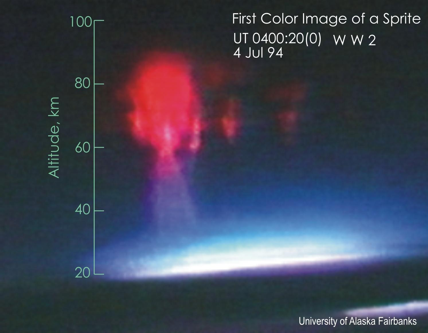 First color image of a sprite. It was obtained during a 1994 NASA/University of Alaska aircraft campaign to study sprites.The event was captured using an intensified color TV camera. The red color was subsequently determined to be from nitrogen fluorescent emissions excited by a lightning stroke in the underlying thunderstorm.